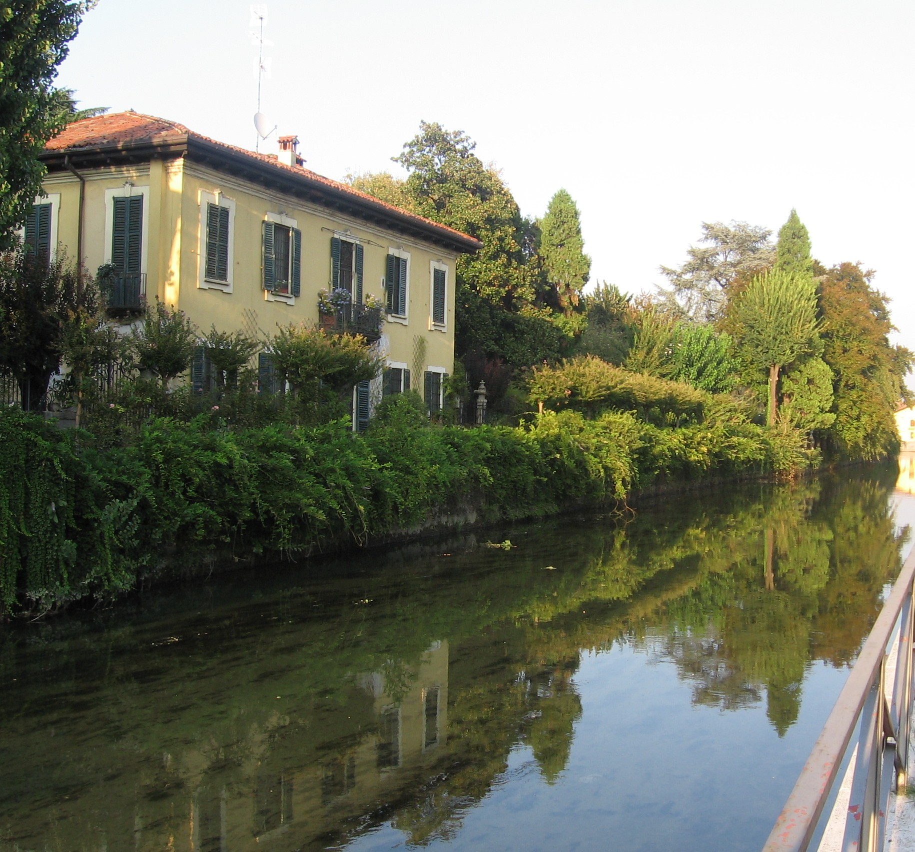 Martesana canal in Crescenzago, northeastern part of Milan